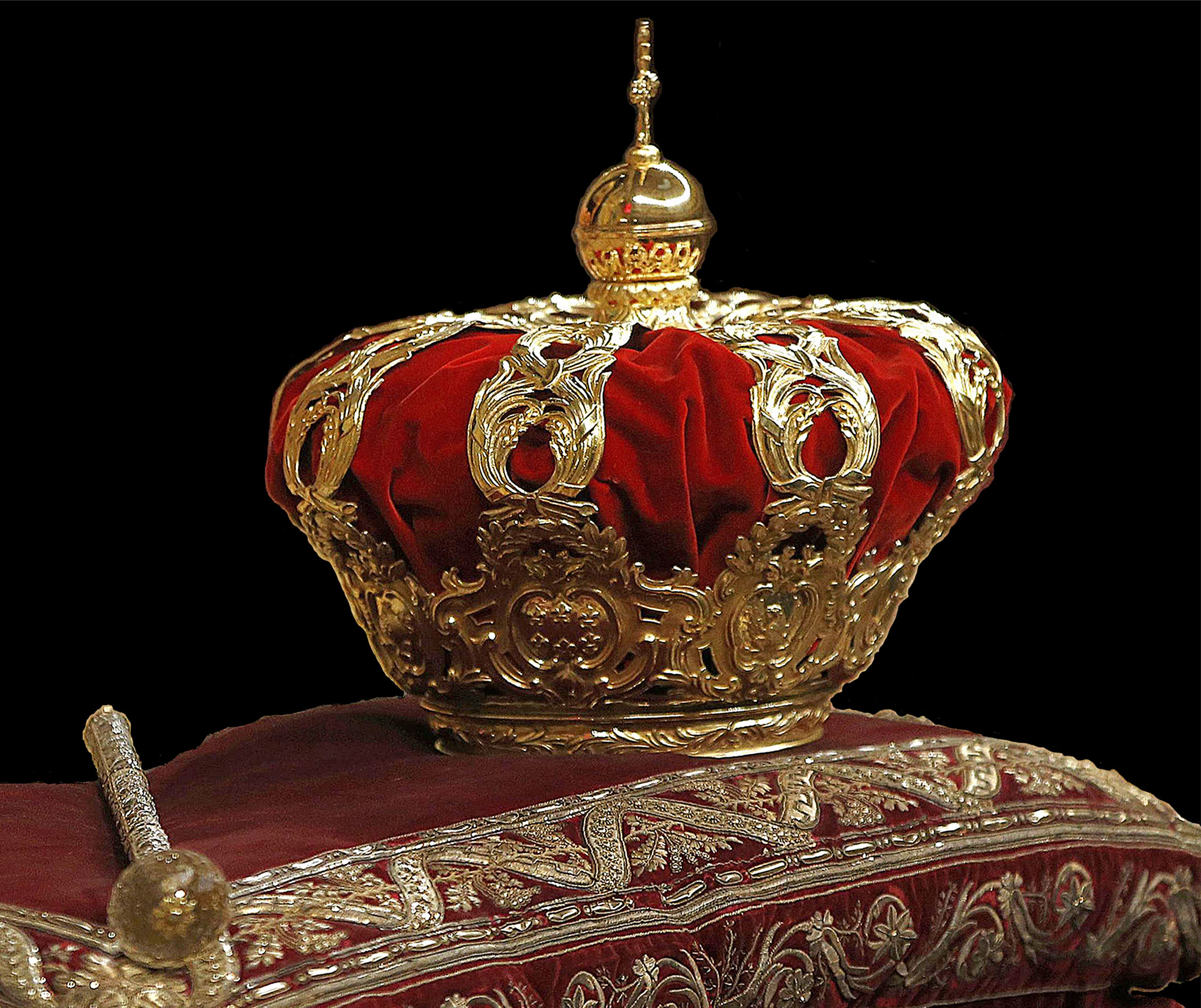 Crown used in the proclamation of Kings of Spain. Made it in the XVIII century., Cropped and Blackened version of Spanish Royal Crown 1.jpg